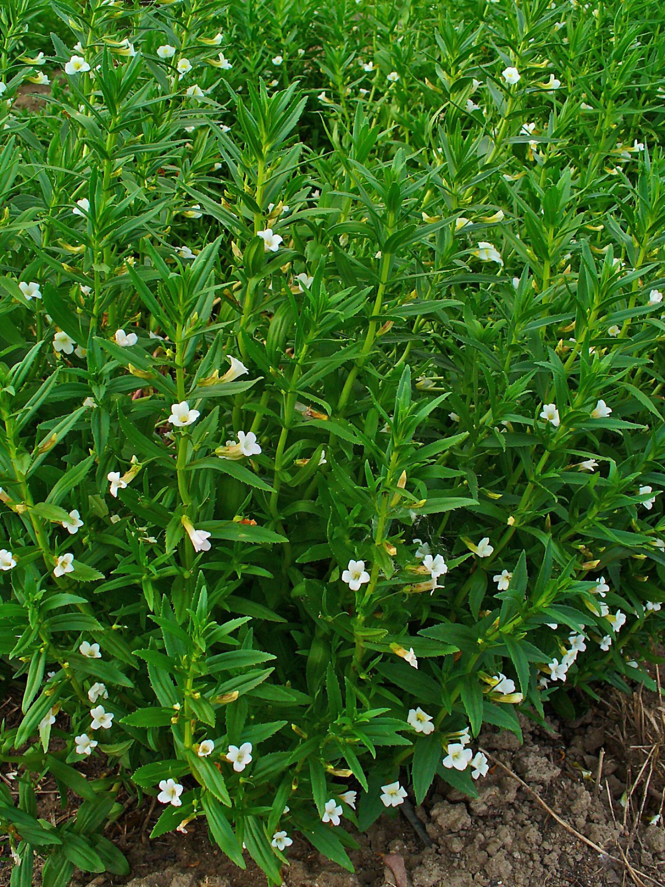 Gratiola officinalis, Plantaginaceae, Common Hedgehyssop, habitus. The fresh, aerial parts collected at bloom are used in homeopathy as remedy: Gratiola (Grat.)